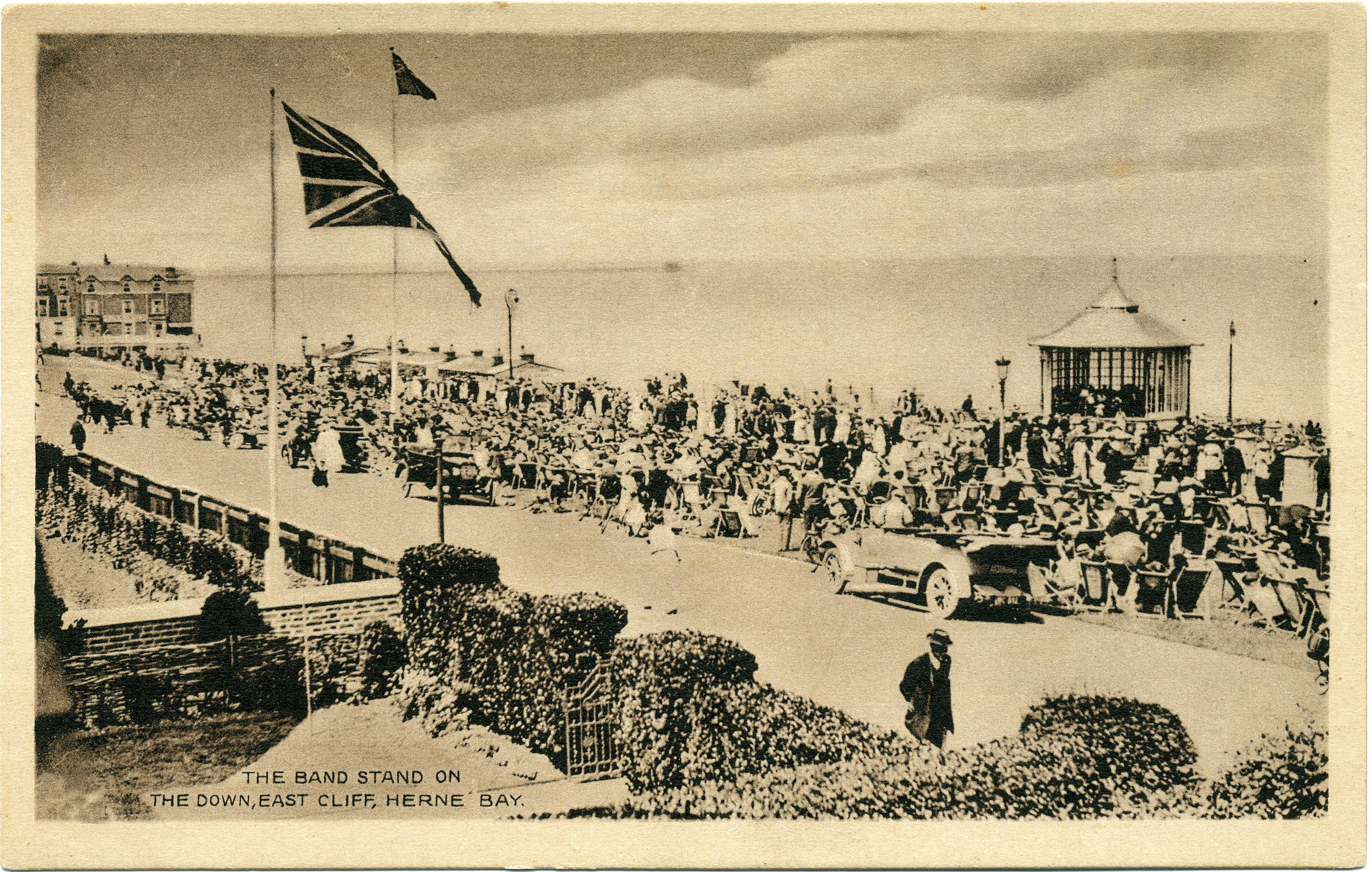 Postcard photograph of the King's Hall, Herne Bay, Kent, England. It was opened in 1904 and called the Pavilion or Bandstand before it was extended underground and re-named in 1913. This card is postally unused, but it is labelled the Band Stand, which dates it to before 1913. Points of interest The bandstand no longer exists on top of the King's Hall The cars may indicate some high-class or rich holidaymakers, probably from London.